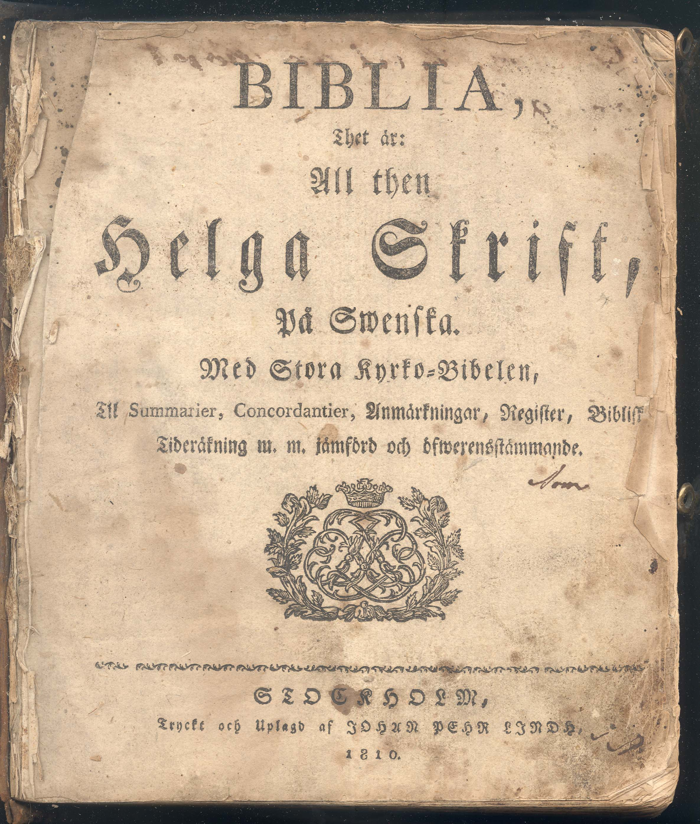 First page of a Swedish BiblePlace: Stockholm, Sweden